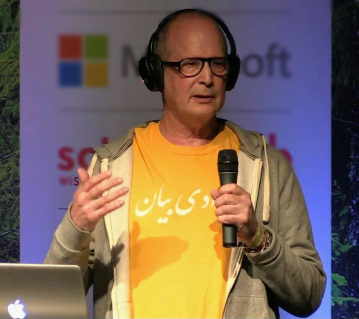 Find out more at: DesiSec is the first documentary film to explore cybersecurity from the civil society perspective. It explores the relationship between the average Internet user in India and the state. What is privacy, surveillance, and censorship in the world's largest democracy? How does the law impact user experience and free expression? The questions asked - and the discussions raised - have particular relevance to the Indian people, and emerging networks across the Internet. Oxblood Ruffin Creative Commons Attribution-ShareAlike 3.0 Germany (CC BY-SA 3.0 DE)